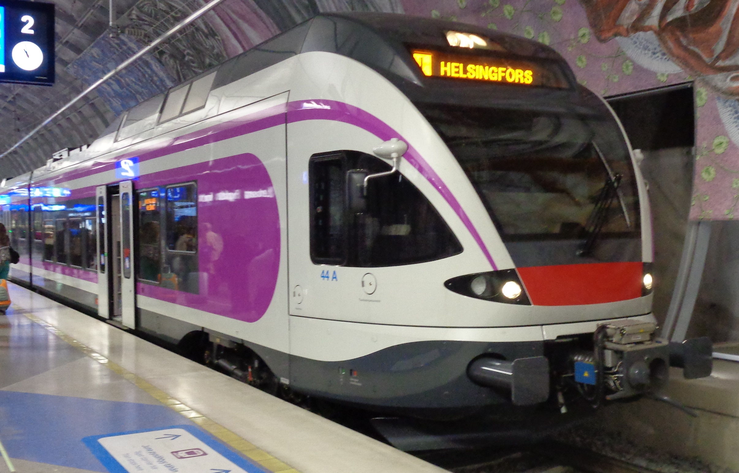 JKOY Class Sm5 EMU number 44 at Helsinki Airport station.